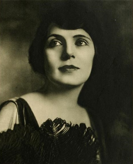 Publicity photo of Mary Alden from Stars of the Photoplay. Mary Alden, the "great American mother" of the screen, is one of D. W. Griffith's finds. She was born in New Orleans and educated in the Notre Dame College in Montreal. She studied at the Art Student's League in New York. Happening to know the sister of Rose Melville, the inimitable "Sis Hopkins," she entered the Baldwin-Melville stock company. An engagement with Mrs. Fiske followed, and then, quite by accident, she found herself in pictures. She came into prominence by her splendid work as Lydia Brown, the mulatto housekeeper, in "The Birth of a Nation."